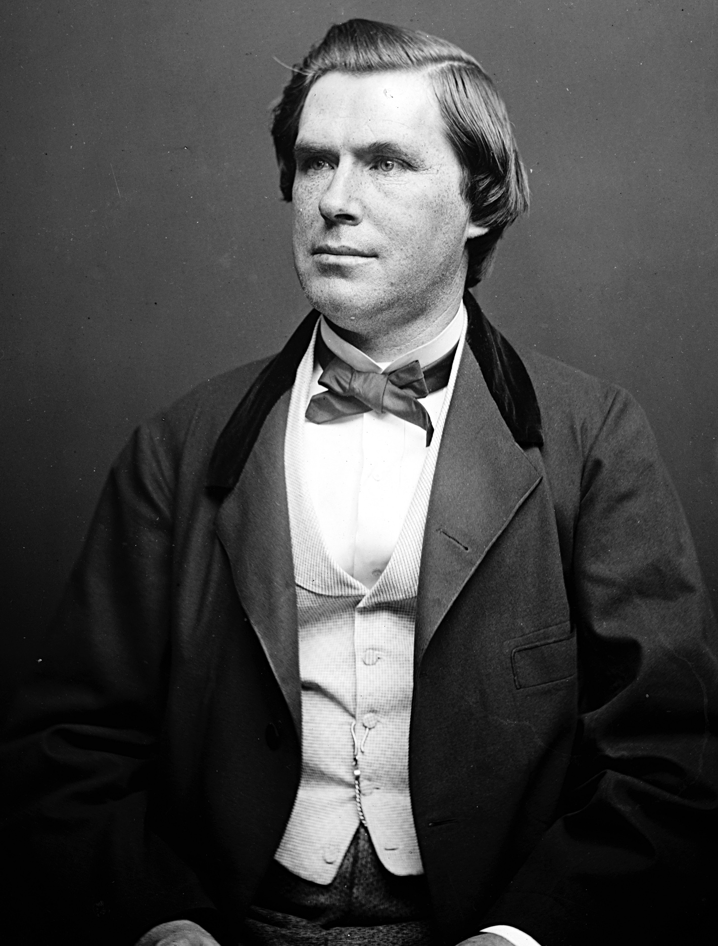 William G. Steele, US Representative from New Jersey